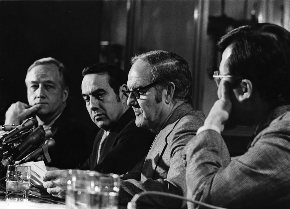 McGovern is reading into a microphone while the others listen at the U.S. Senate Select Committee on Nutrition and Human Needs. The Committee was terminated in 1977, yet date given as 1980, so either it is wrong or the description of the setting is incorrect.